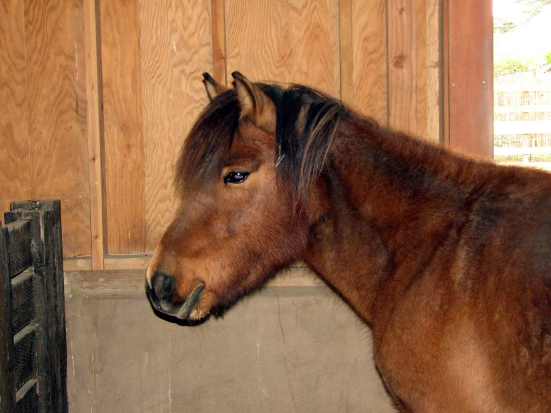 Gotland Pony. Endangered Domestic Breed